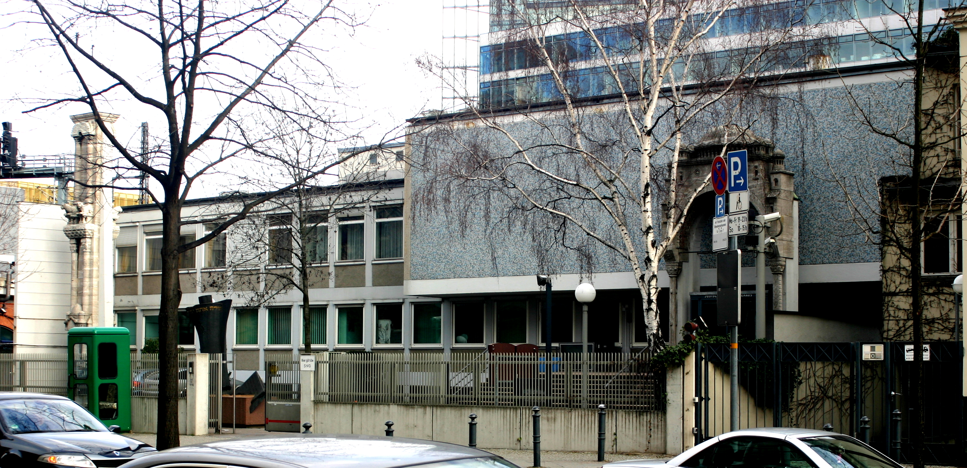 (former) house of the jewish community berlin, Fasanenstraße